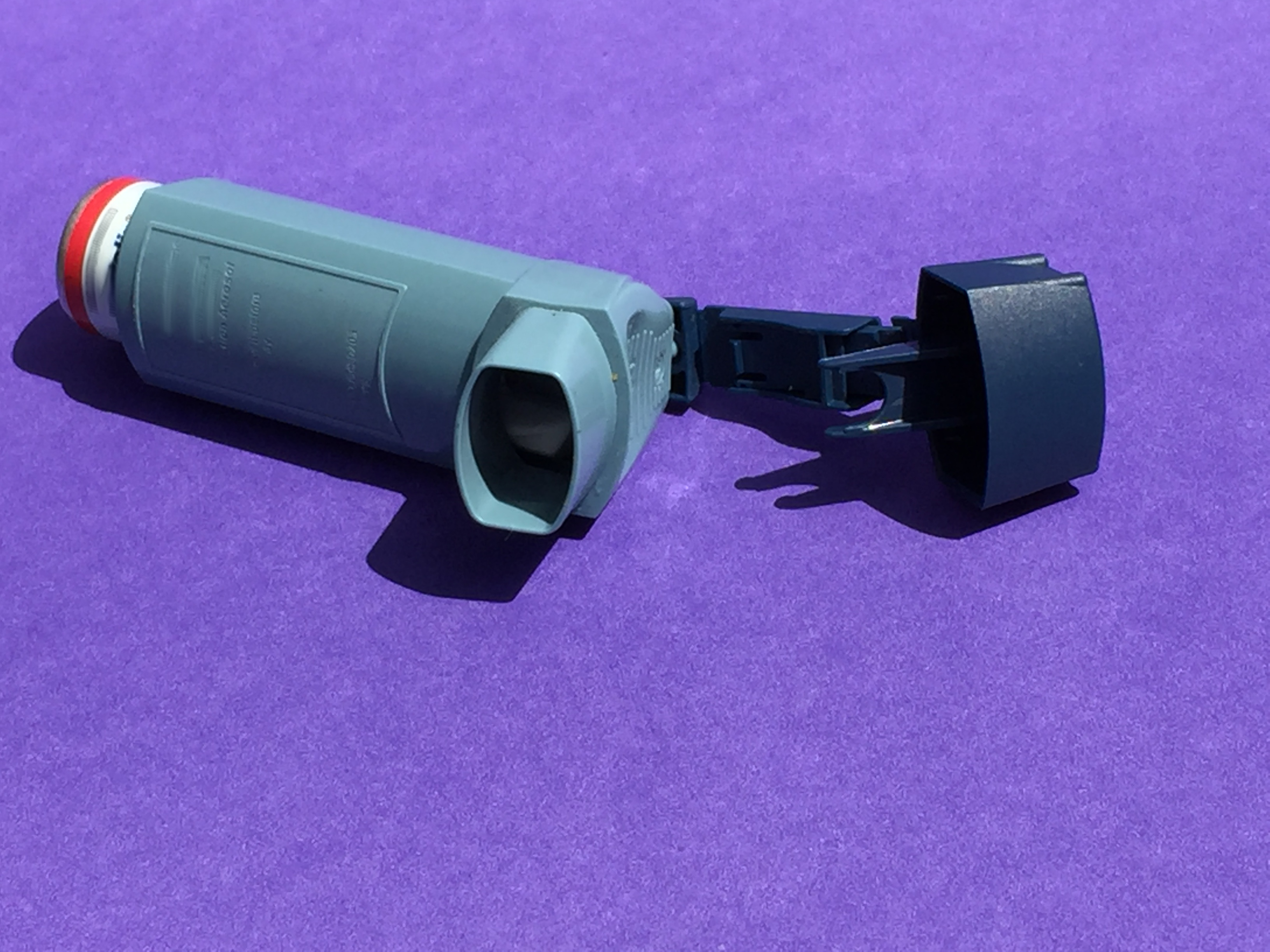 Asthma inhaler. Credit: NIAID